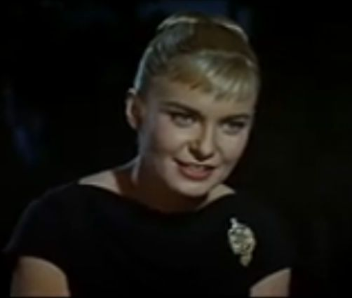 Cropped screenshot of Joanne Woodward from the trailer for the film The Long, Hot Summer